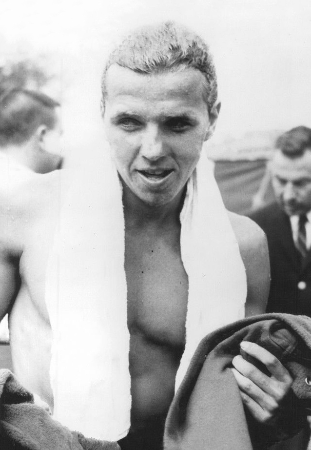 1962 Famed Backstroke Swimmer Tom Stock After Swim Cuyahoga Falls Press Photo